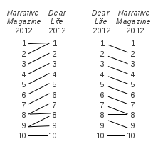 Alice Munro: "To Reach Japan" (2012 / 2012), section variants